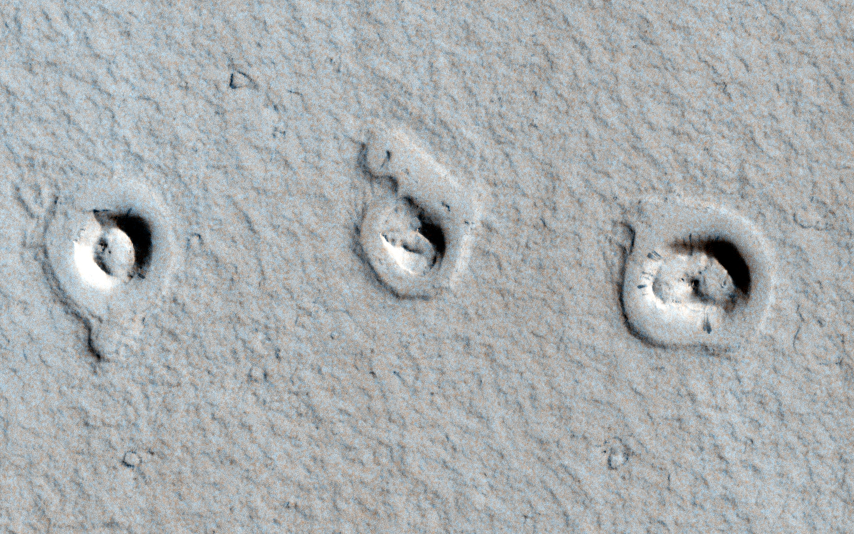 NASA/JPL/University of Arizona Cones and Inflated Lava Flows ESP_030192_2020 Science Theme: Volcanic Processes A CTX image shows topographic cones in local depressions here. What are these and how did they form? This image reveals "rootless cones," which form on lava flows that interact with subsurface water. They are in depressions because subsequent lava flowed around the base of the cones, then "inflated." Lava inflation is a process where liquid is injected beneath the solid (thickening) crust and raises the whole surface, often raising it higher than the topography that controlled the initial lava emplacement. This scene is in Amazonis Planitia, a vast region covered by flood lava. The surface is coated by a thin layer of reddish dust, which avalanches down steep slopes to make dark streaks. Written by: Alfred McEwen (audio by Tre Gibbs) (20 February 2013) Acquisition date: 04 January 2013 Local Mars time: 3:14 PM Latitude (centered): 21.965 degrees Longitude (East): 197.807 degrees Range to target site: 288.0 km (180.0 miles) Original image scale range: 57.6 cm/pixel (with 2 x 2 binning) so objects ~173 cm across are resolved Map projected scale: 50 cm/pixel and North is up Map projection: EQUIRECTANGULAR Emission angle: 2.9 degrees Phase angle: 61.9 degrees Solar incidence angle: 64 degrees, with the Sun about 26 degrees above the horizon Solar longitude: 238.2 degrees, Northern Autumn For non-map projected products: North azimuth: 97 degrees Sub-solar azimuth: 327.0 degrees For map-projected products North azimuth: 270 degrees Sub solar azimuth: 141.4 degrees